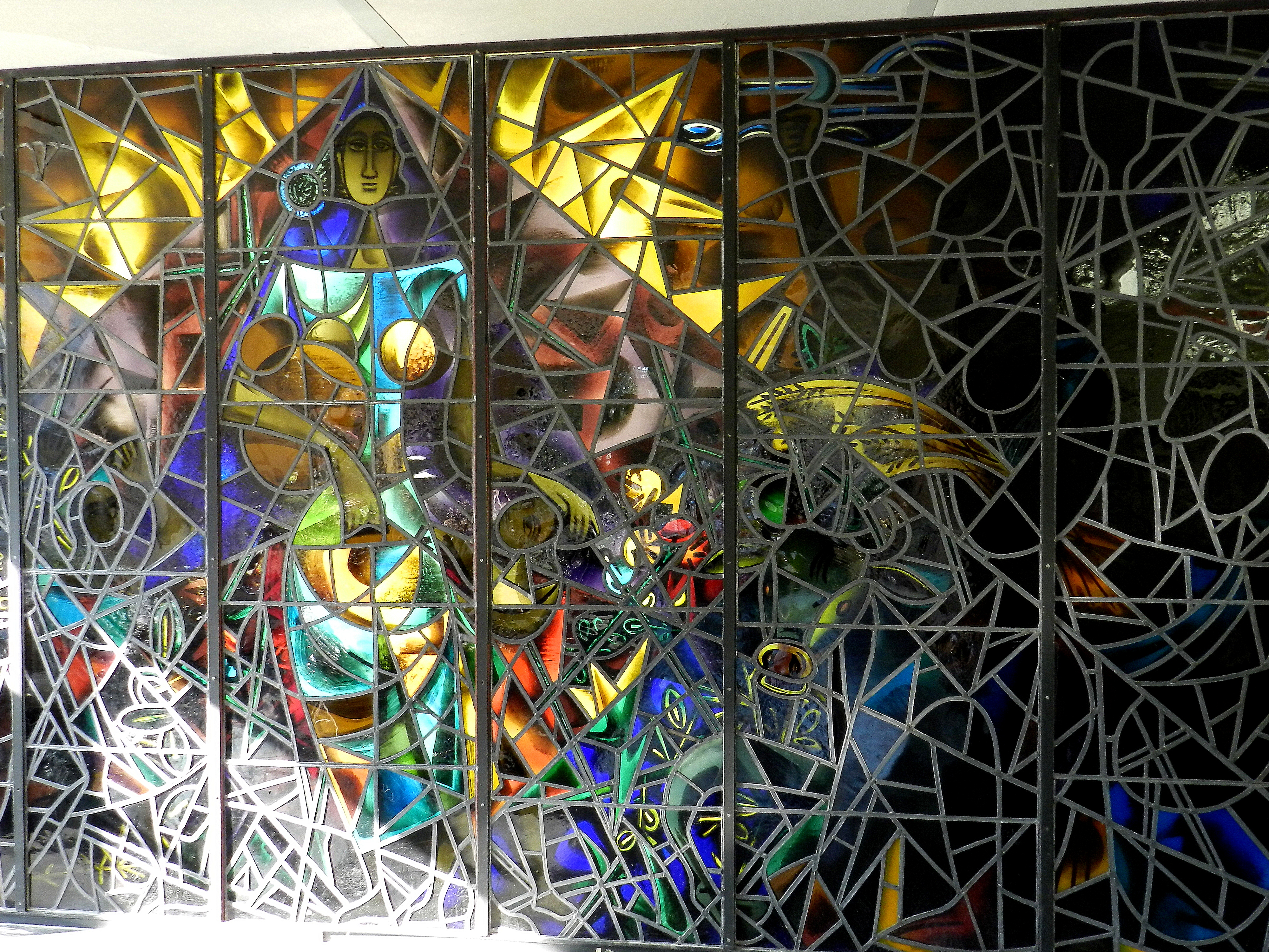 Stained Glass of George Keyt, Library Marie-Uguay, 6052 Monk Boulevard, Montreal, Quebec, Canada. Lanka Mata was initially designed to be placed on the façade of the Ceylon (now known as Sri Lanka) pavilion at Expo 67. When the pavilions were dismantled, the work was offered by the Ceylonese authorities to the Ville de Montréal as a token of appreciation. In 1982, following expansion of the Bibliothèque Monk, renamed Marie-Uguay, the artwork was finally installed permanently in homage to the Montréal poet.